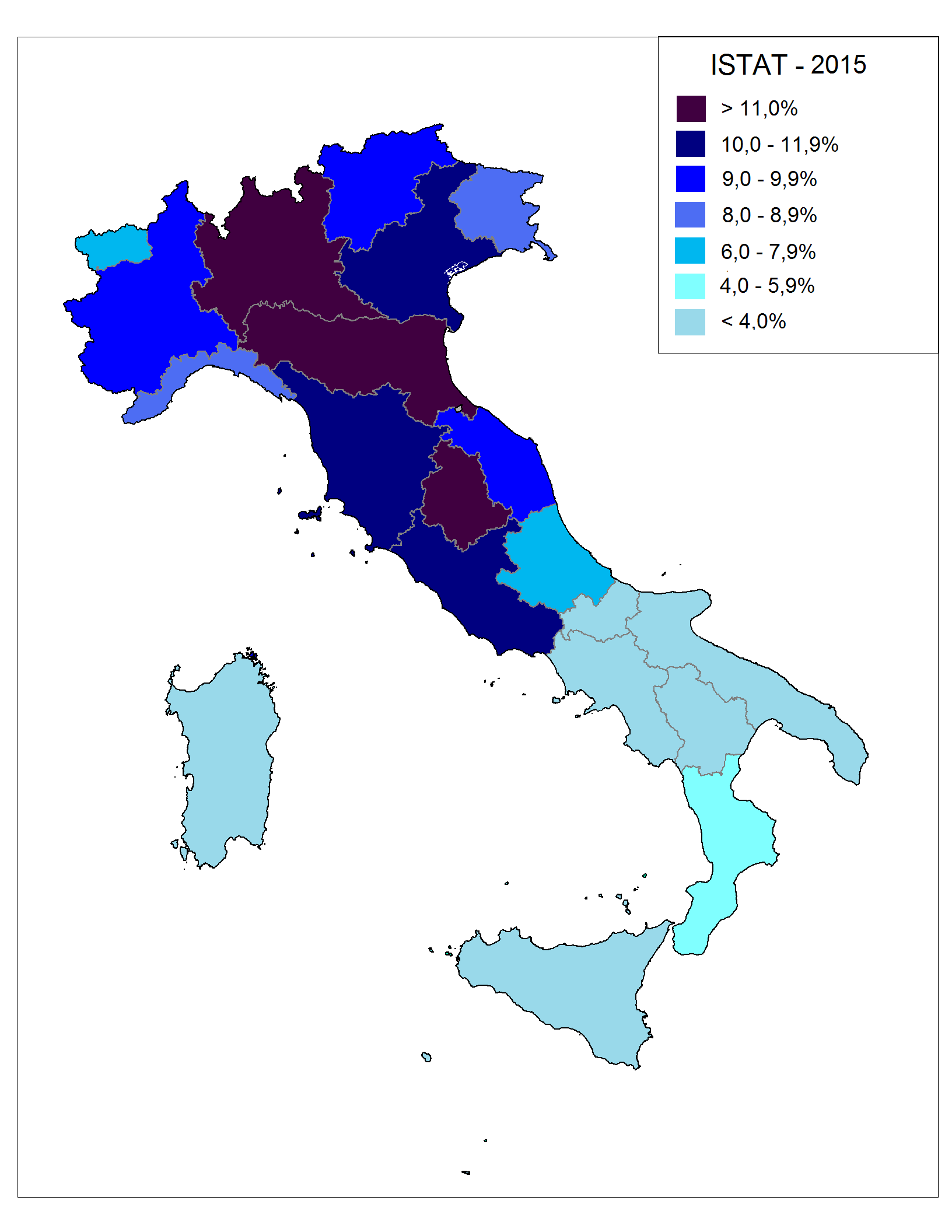 Immigrants as a percentage of population in italian regions.